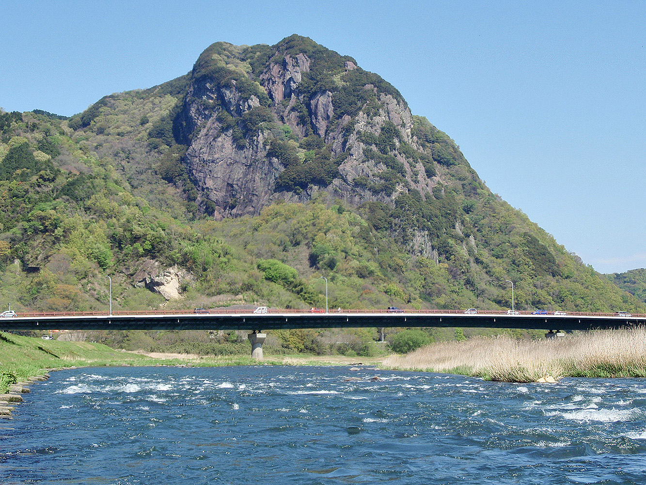 Joyama (Mount Jo) as seen from the southeast in Izunokuni, Shizuoka Prefecture, Honshu, Japan. Kano River in the foreground.